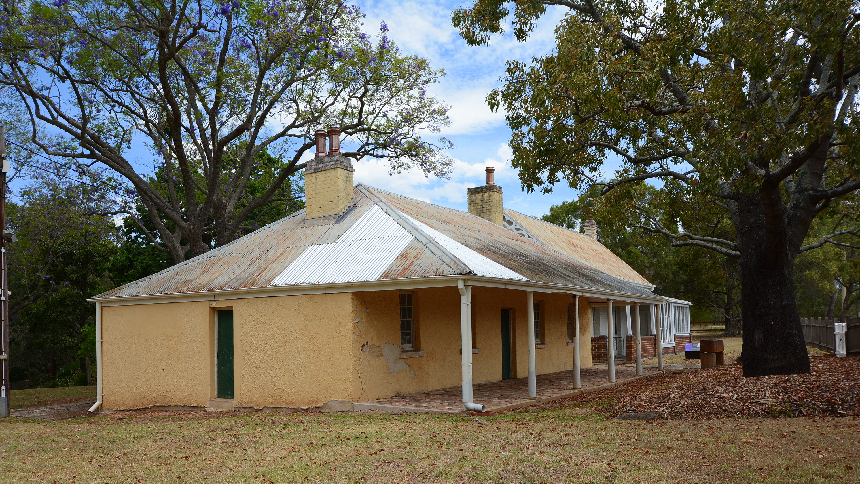 Dairy Cottage, Parramatta Park, Paramatta, Sydney